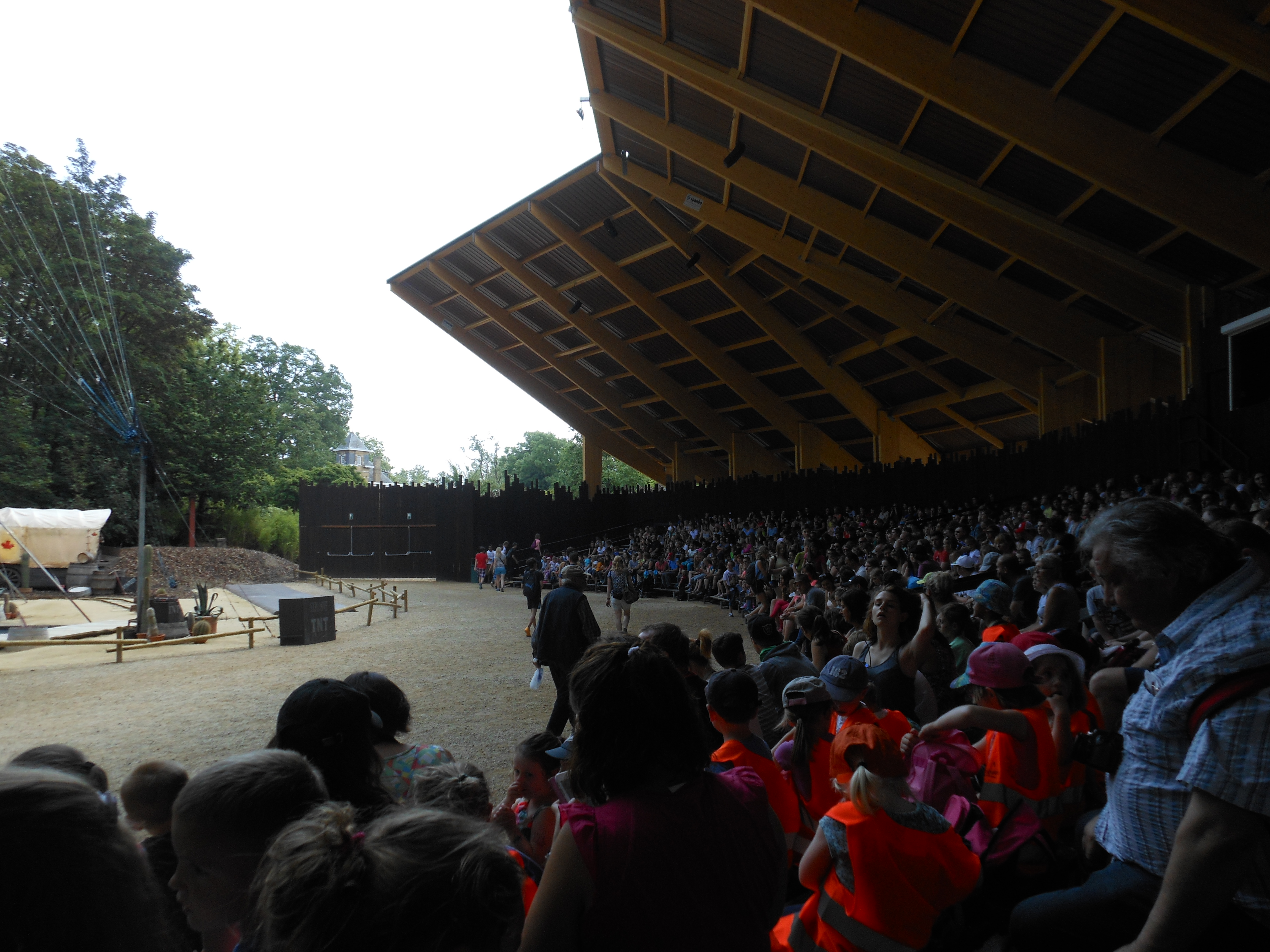 The audience for the stunt- & diveshow "Gold Rush" at theme park resort Bellewaerde, Ypres, Flanders, Belgium